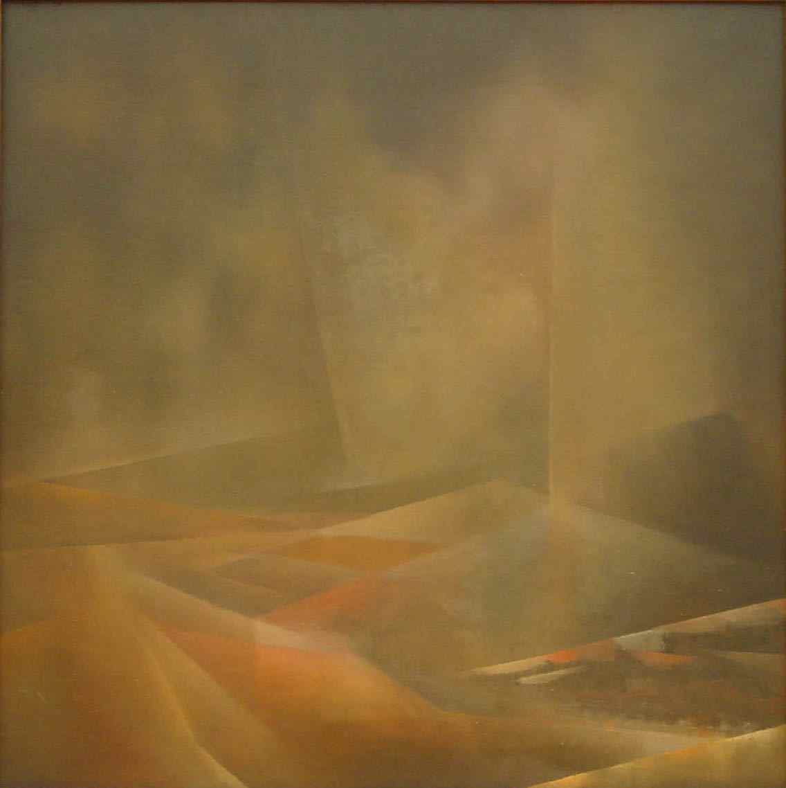 Selby Mvusi, Zululand, 1959, Oil on Board